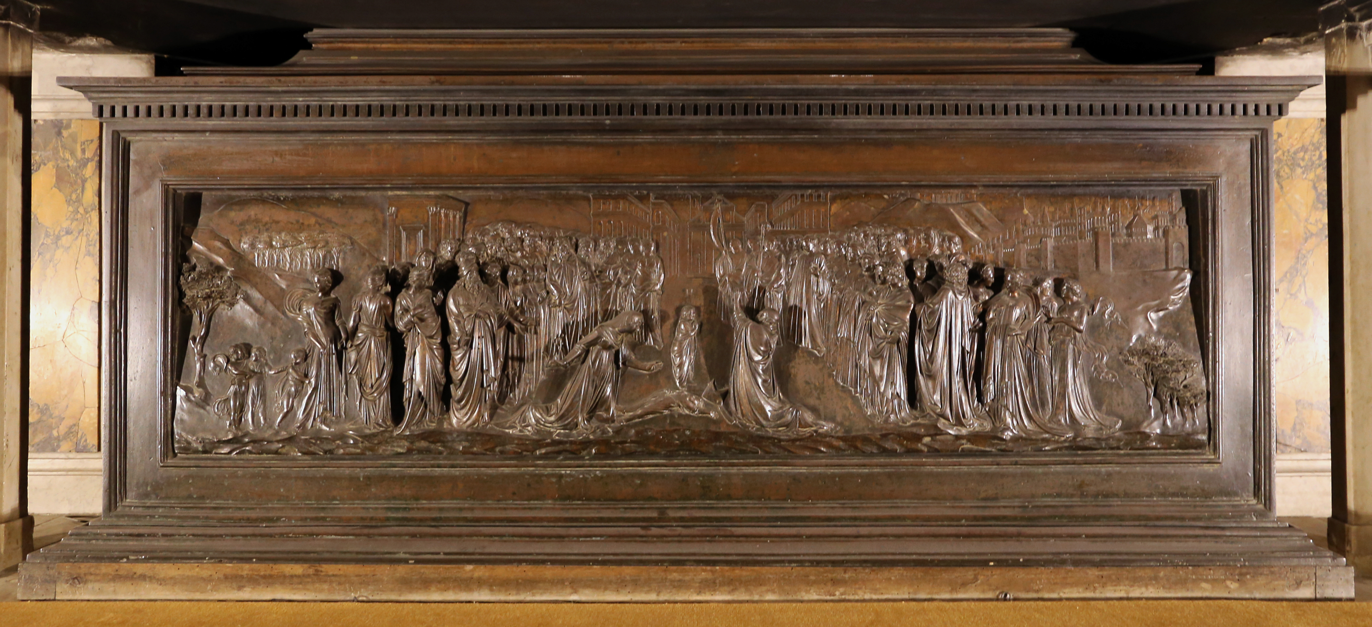 San Zanobi Ark